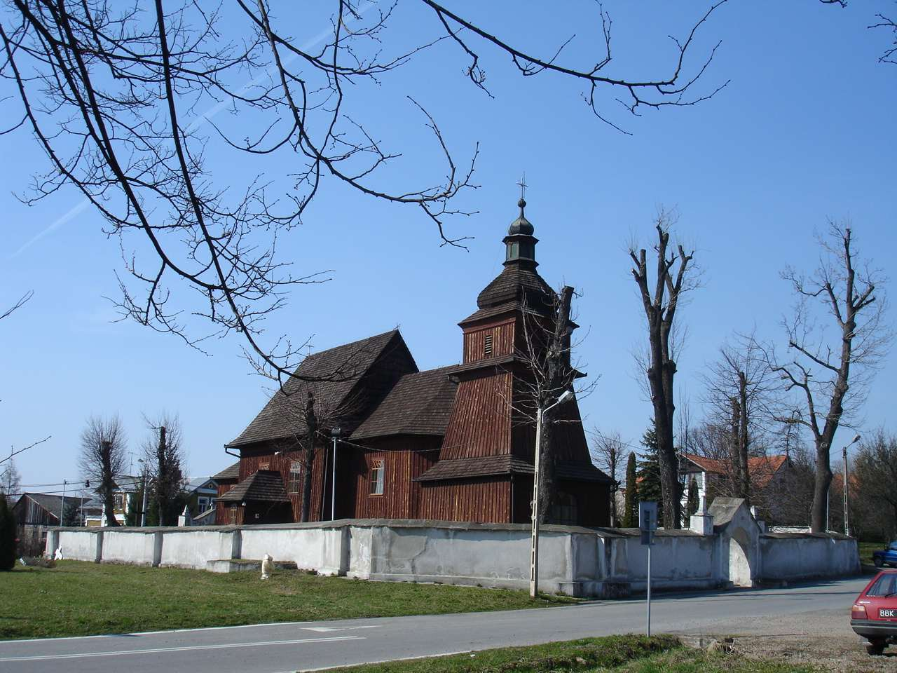 Church of St. Erasmus of Formiae in Barwald Dolny near Wadowice, from 17/18th. c.